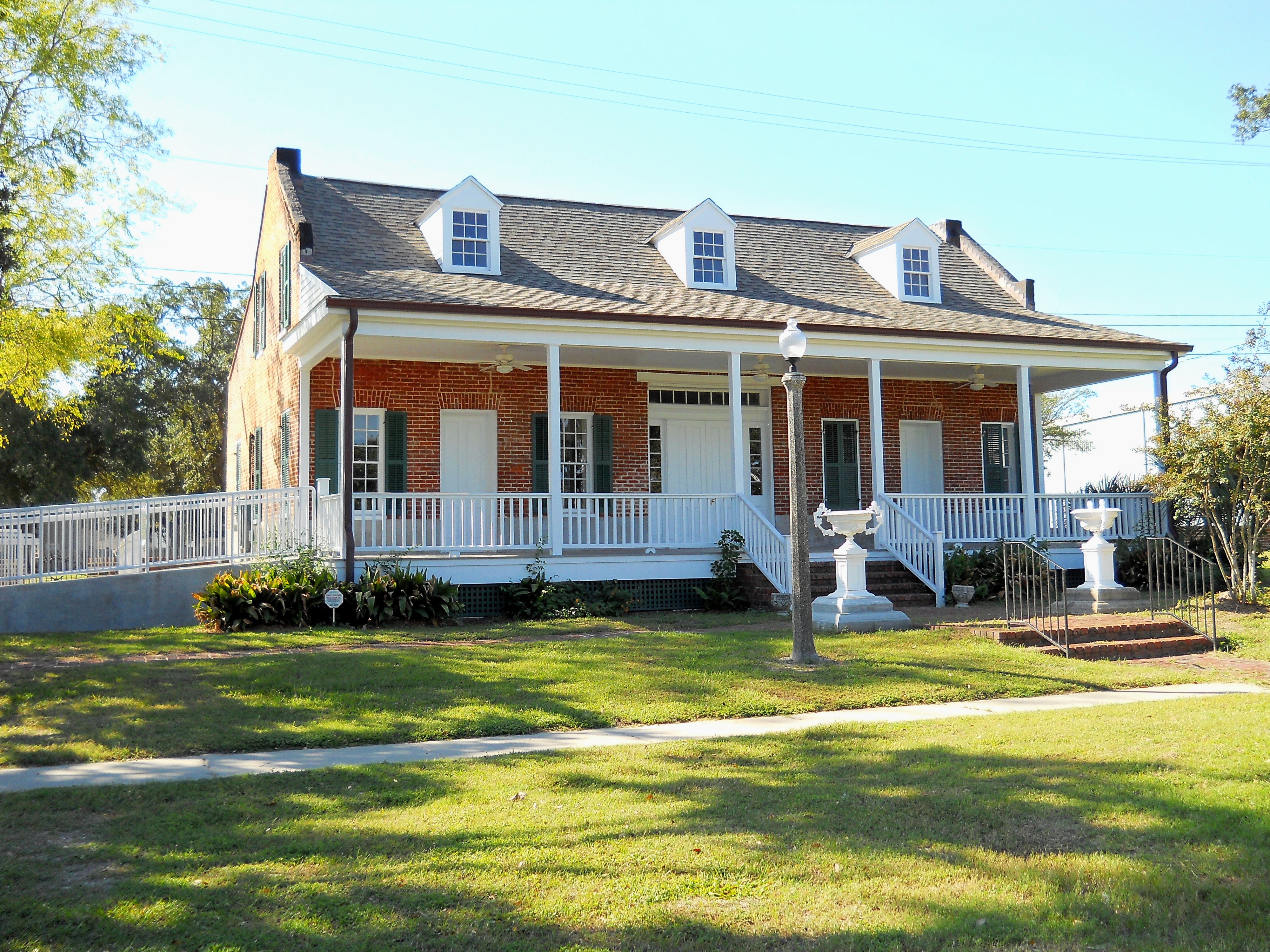 Old Brick House located on Back Bay in Biloxi, Mississippi, USA.